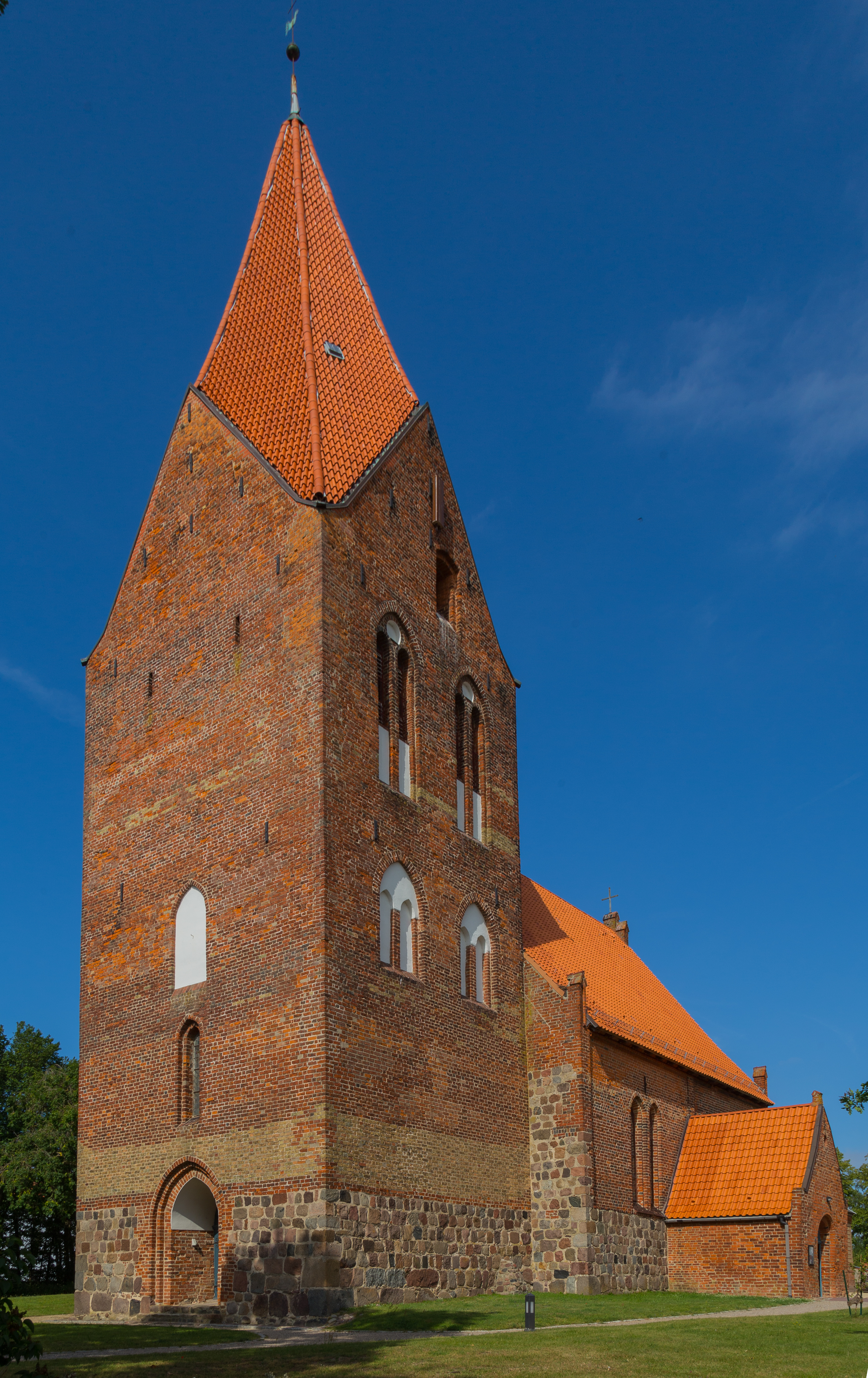 The Lutheran St John's Parish Church (Pfarrkirche St. Johannes) in Rerik, Landkreis Rostock, Mecklenburg-Vorpommern, Germany. The church is a listed cultural heritage monument.